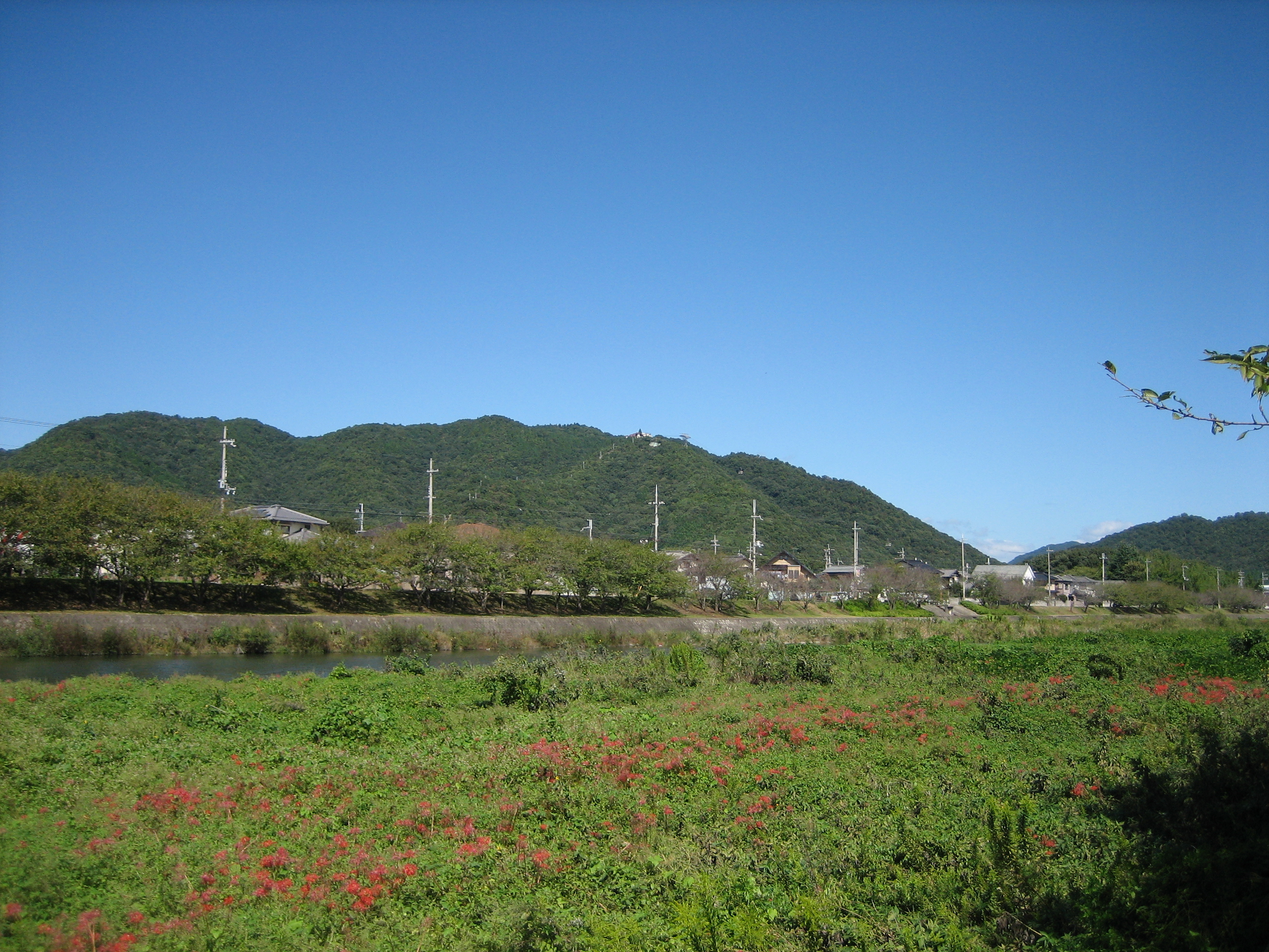 Mount Shosha (Shosha-zan) in Himeji City, Hyogo Prefecture, Japan